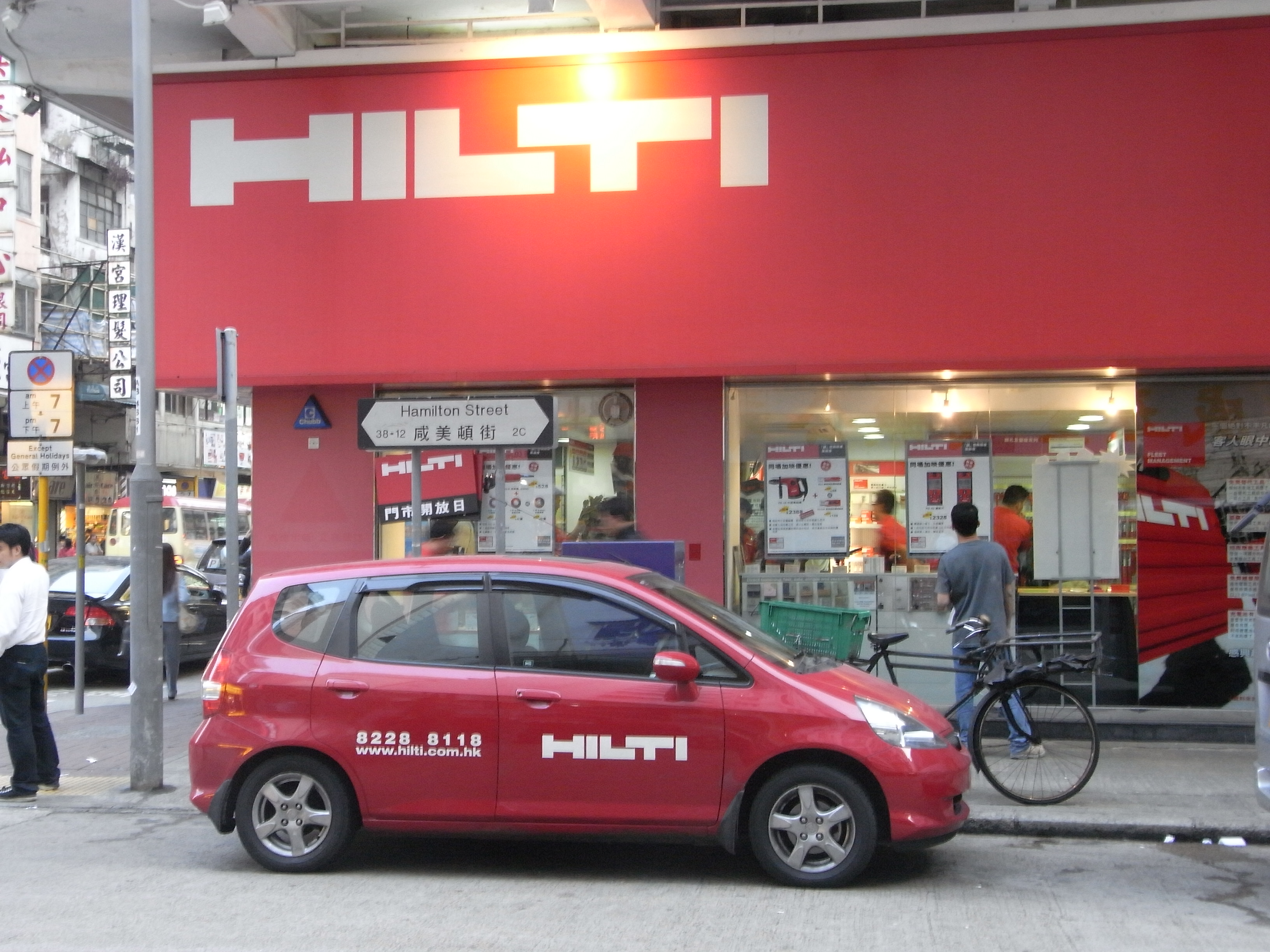 油麻地 喜利得集團 地鋪 & 公司車